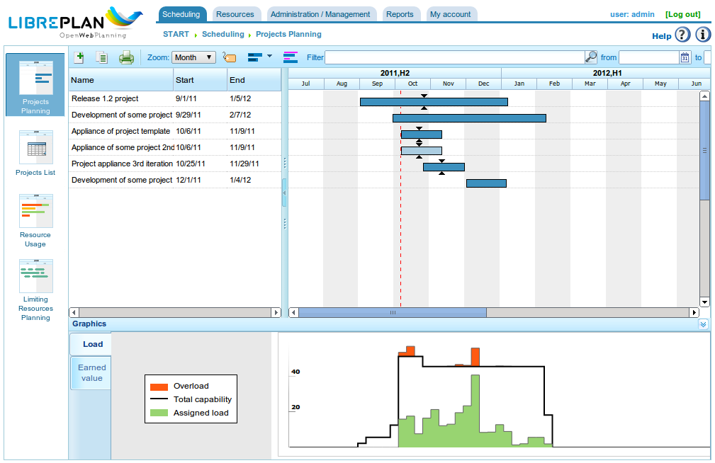 Screenshot of LibrePlan company overview window